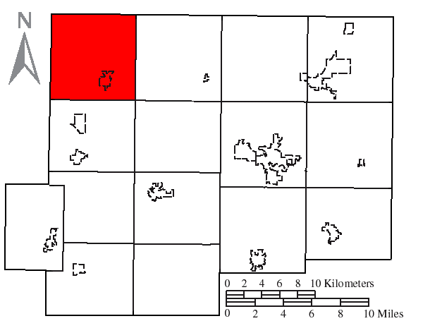 Made by the US Census and modified by myself